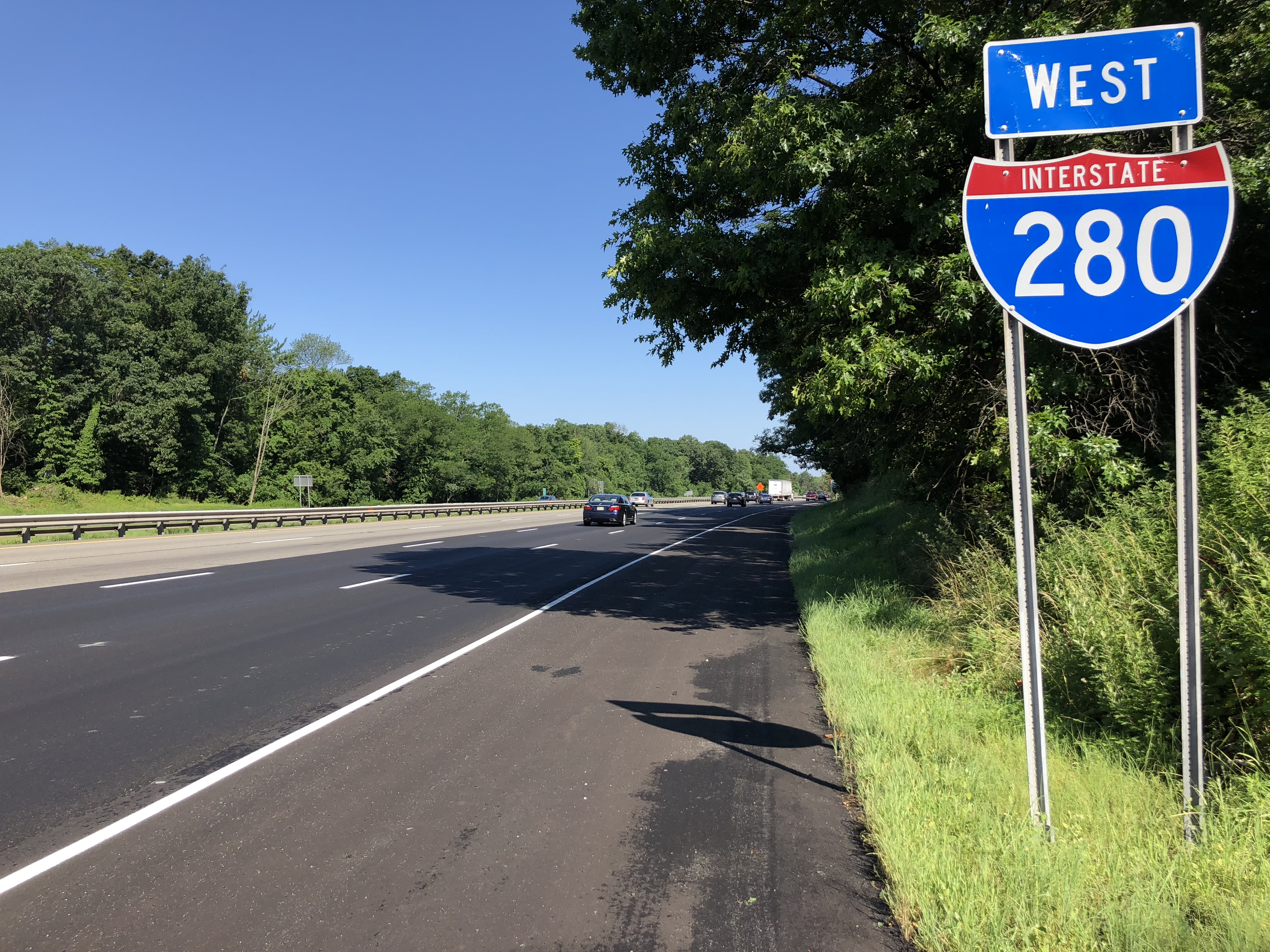 View west along Interstate 280 (Essex Freeway) between Exit 5A and Exit 4B in Roseland, Essex County, New Jersey